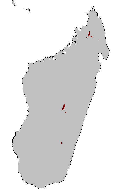 Madagascar ericoid thickets map